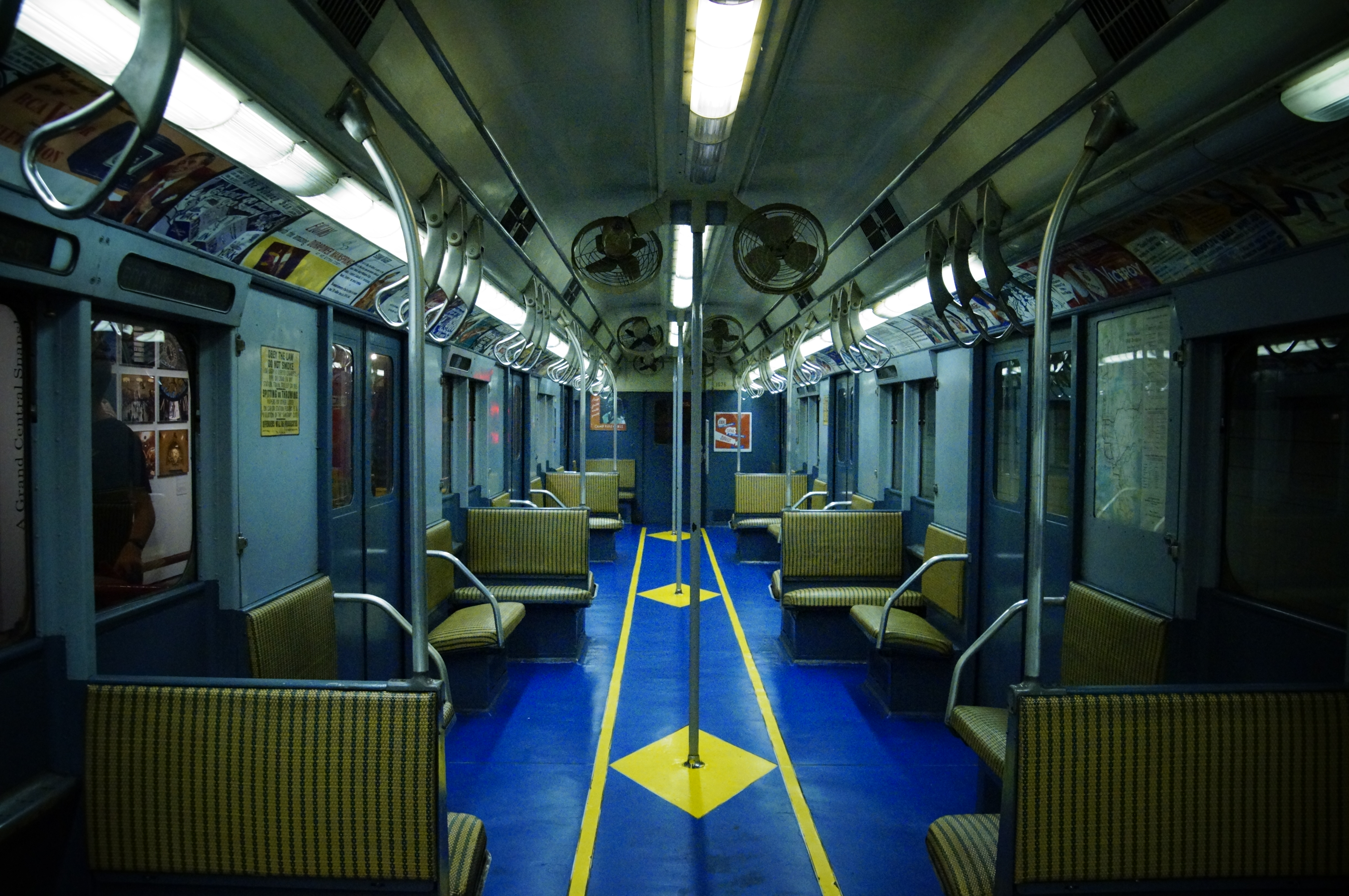 A view of the interior of MTA NYC R7A 1575 at the NY Transit Museum.